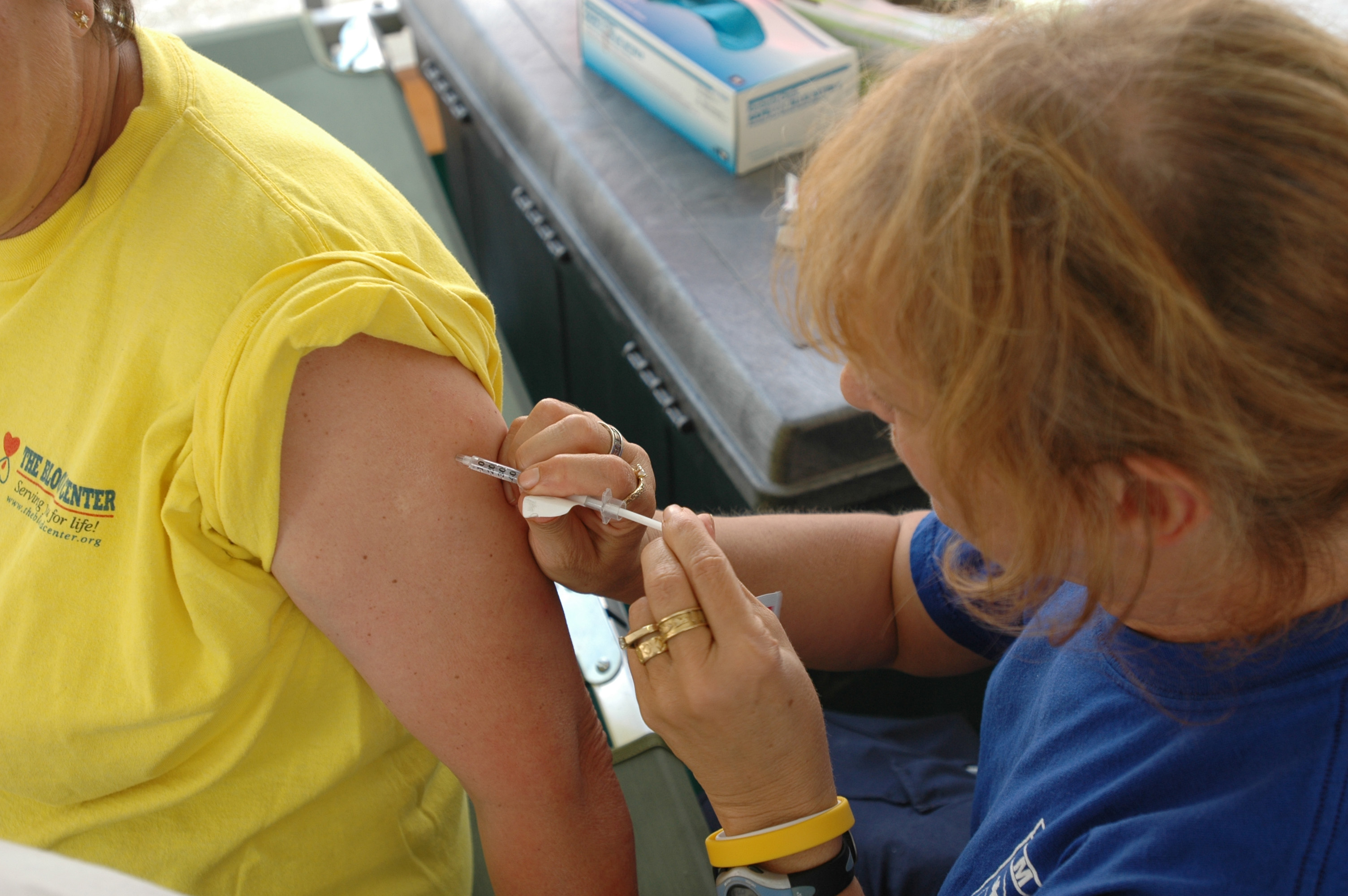 Biloxi, Miss., September 4, 2005 -- A member of the Ohio Disaster Medical Assistance Team (DMAT) 5 administers an innoculation to a resident of Biloxi, Miss. DMAT teams assist hospitals in treating patients in disaster areas. FEMA/Mark Wolfe